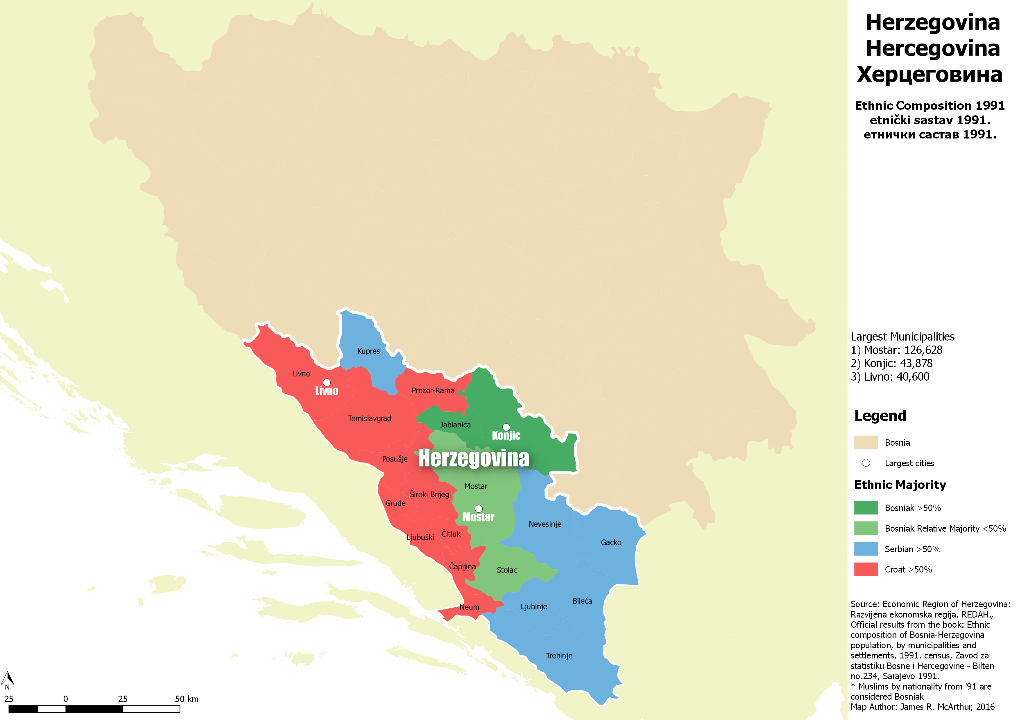 Herzegovina Hercegovina 1991 Ethnic Composition 1991. etnički sastav